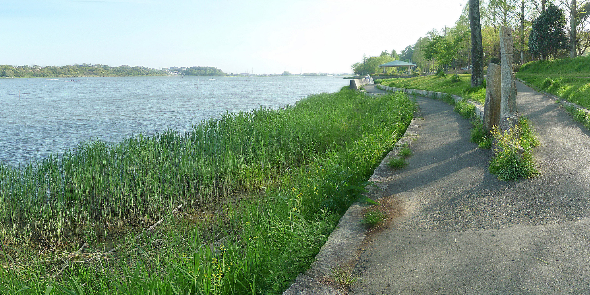 View of Lake Sanaru; Hamamatsu, Shizuoka, Japan